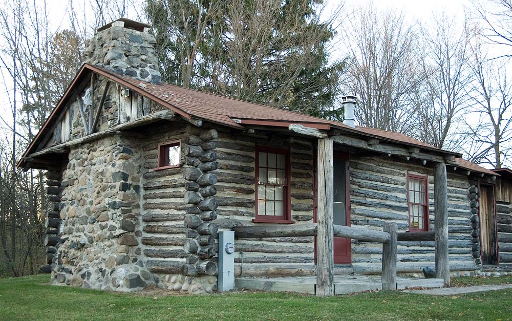 The W. Ben Hunt Cabin in Hales Corners, Wisconsin. National Register of Historic Places. Log cabin built in 1925 by author and educator Ben Hunt. Currently contains artifacts of Hunt and Native American people.